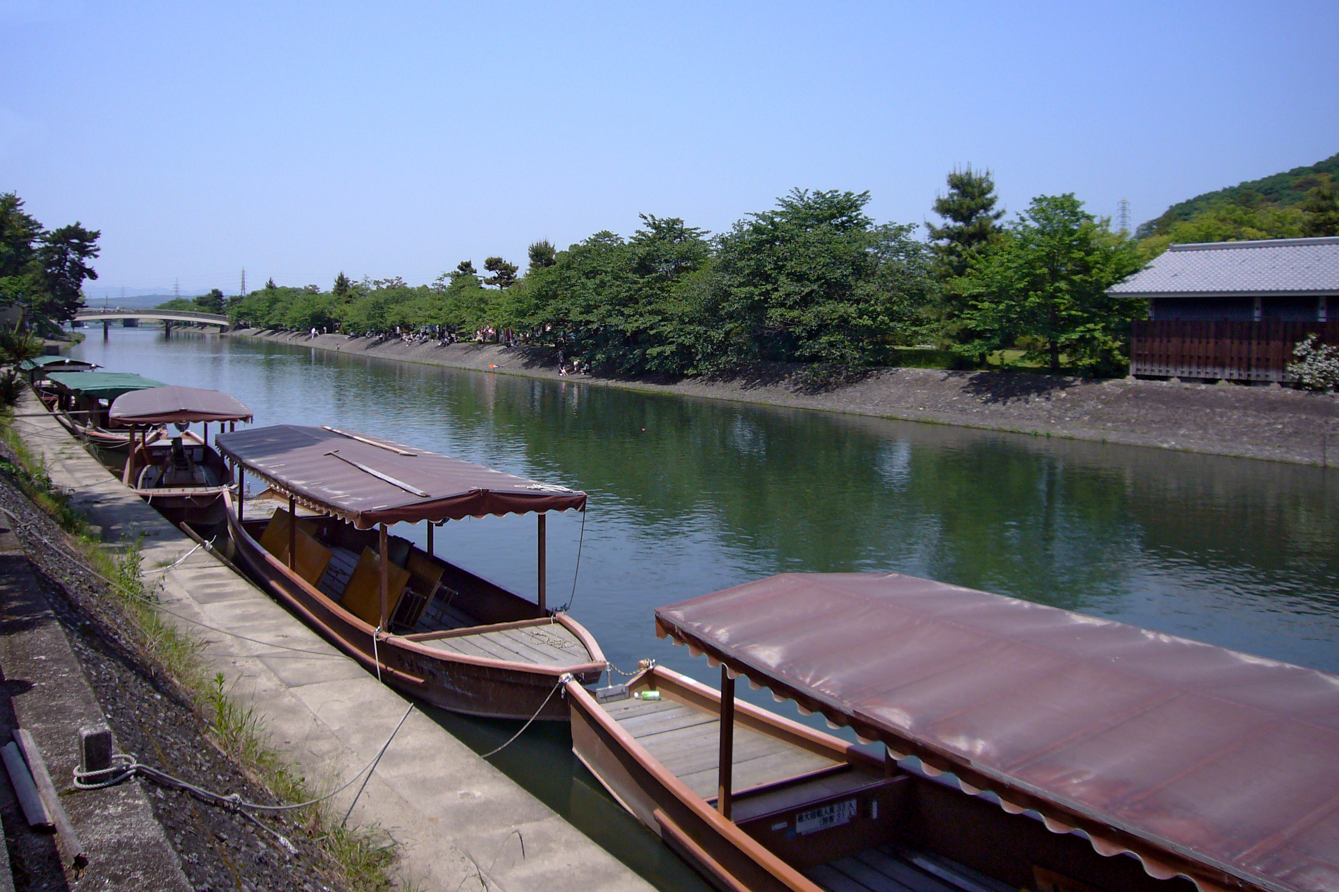 Uji River in Uji, Kyoto prefecture, Japan